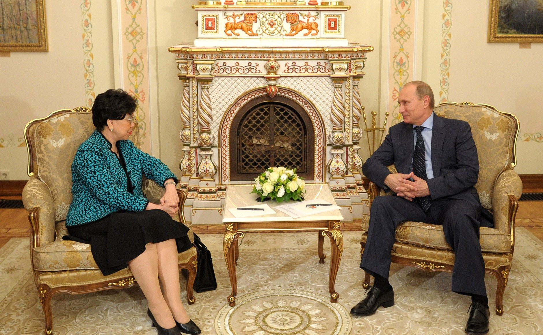 Vladimir Putin met with Director General of the World Health Organisation Margaret Chan. In particular, Mr Putin and Ms Chan discussed the tobacco use situation in Russia and the fight against the spread of Ebola.